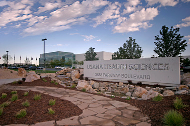 Picture of USANA Health Sciences corporate HQ office